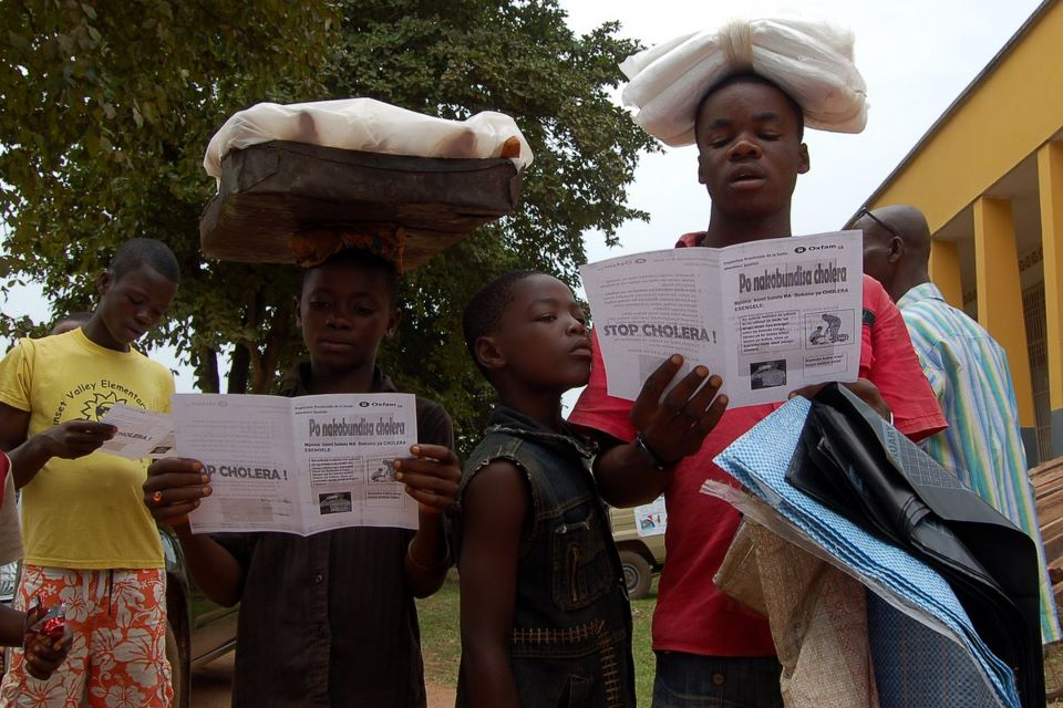 Oxfam distributes leaflets warning about the dangers of cholera, and how it can be prevented. Photo: Oxfam